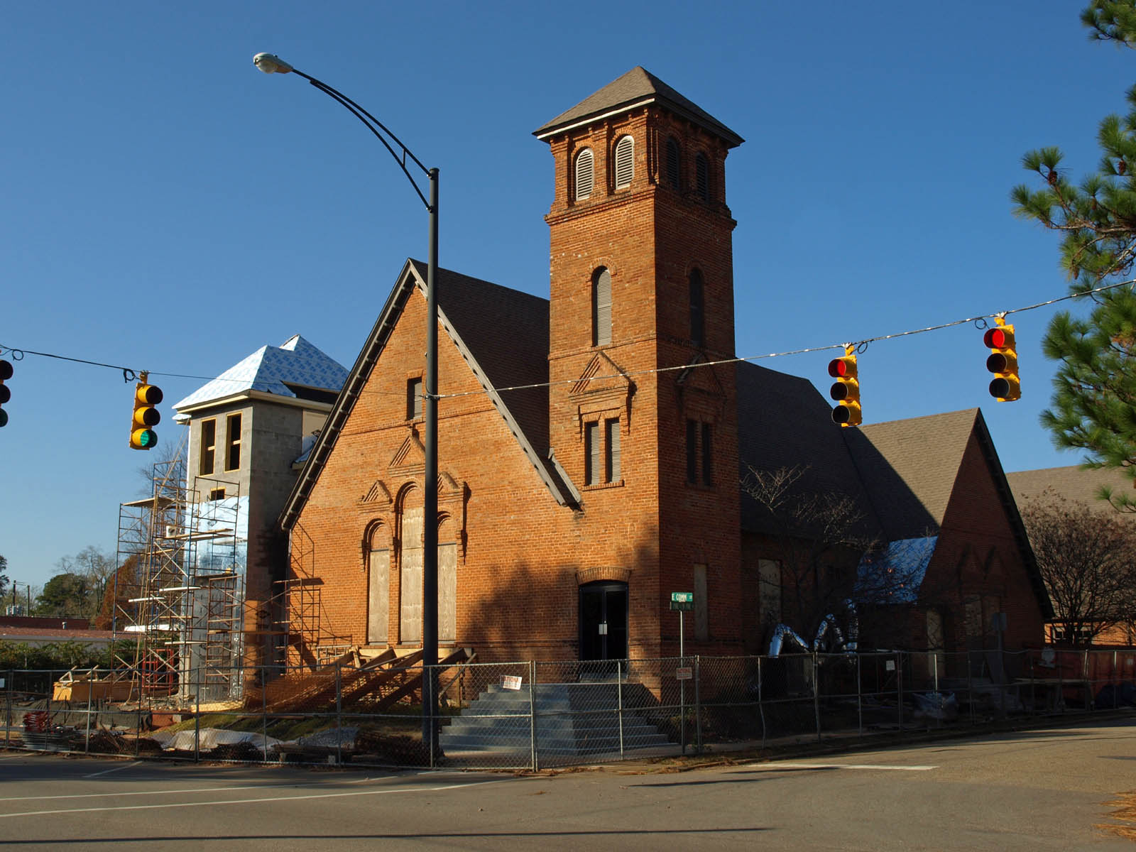 First Presbyterian Church in Greenville, Alabama, listed on the National Register of Historic Places